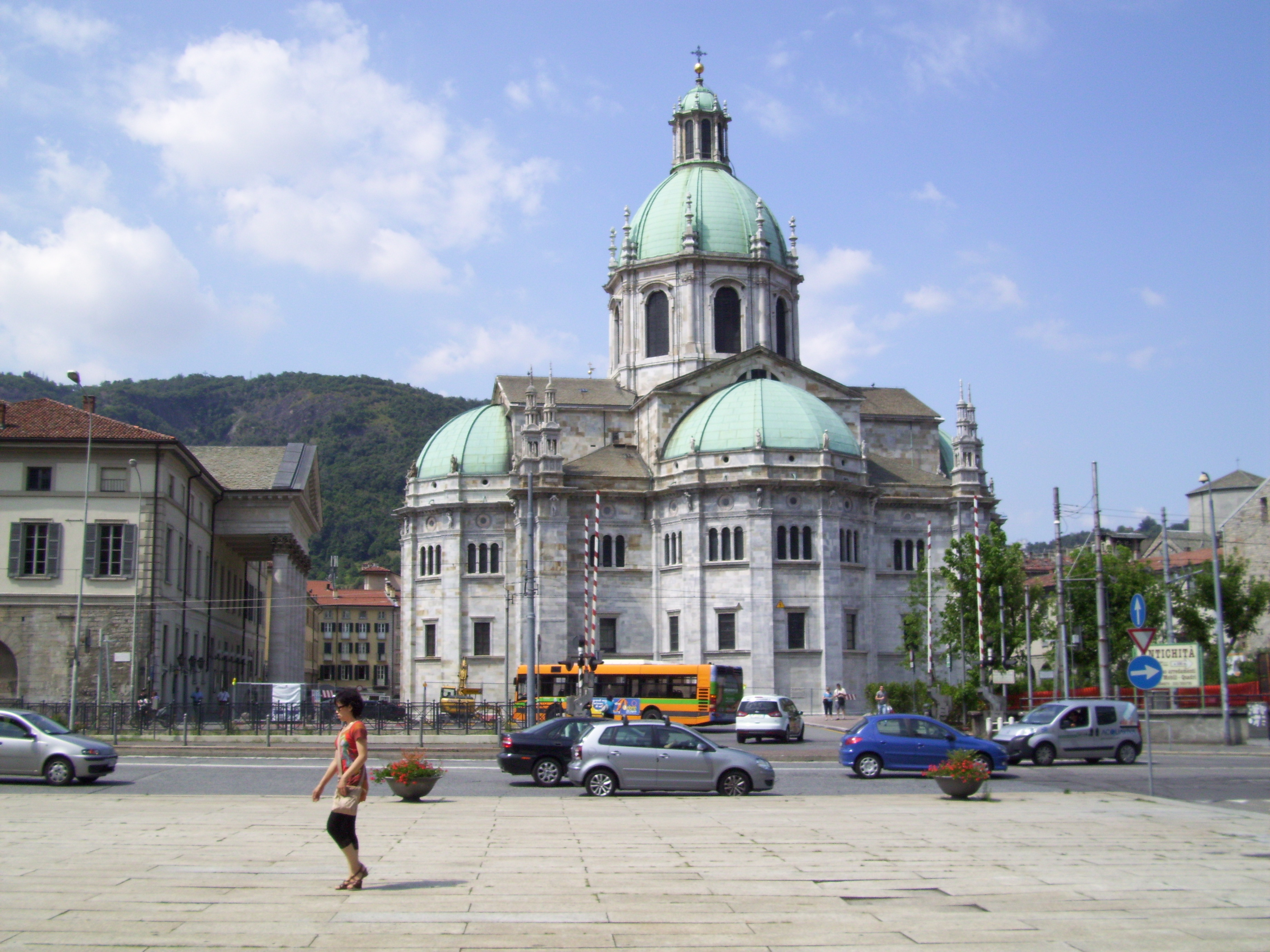 Apse of Como Cathedral seen from Palazzo Terragni